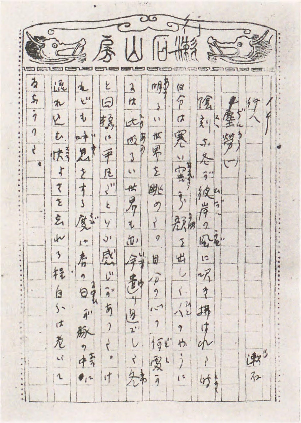 Part of manuscripts of "The Wayfarer" by Natsume Soseki.